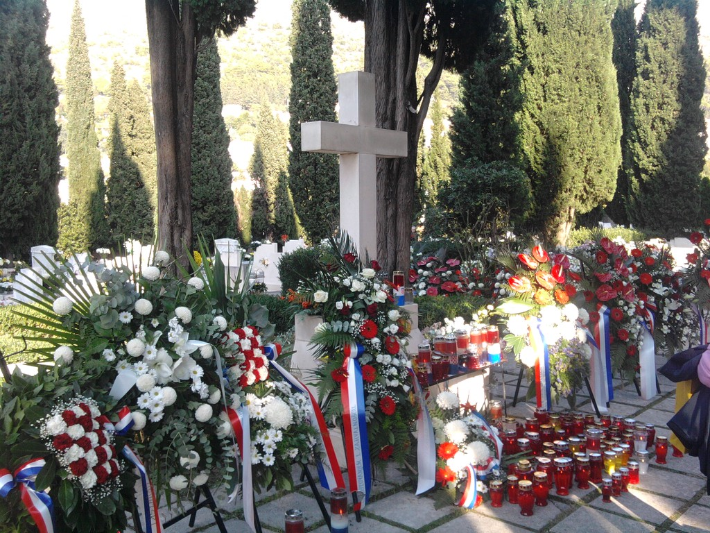 Cemetery Boninovo in Dubrovnik - central cross